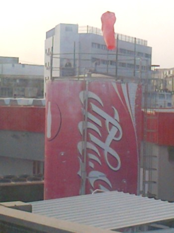 The Coca Cola Israel bottling plant at the major highway exit to Bnei Brak.